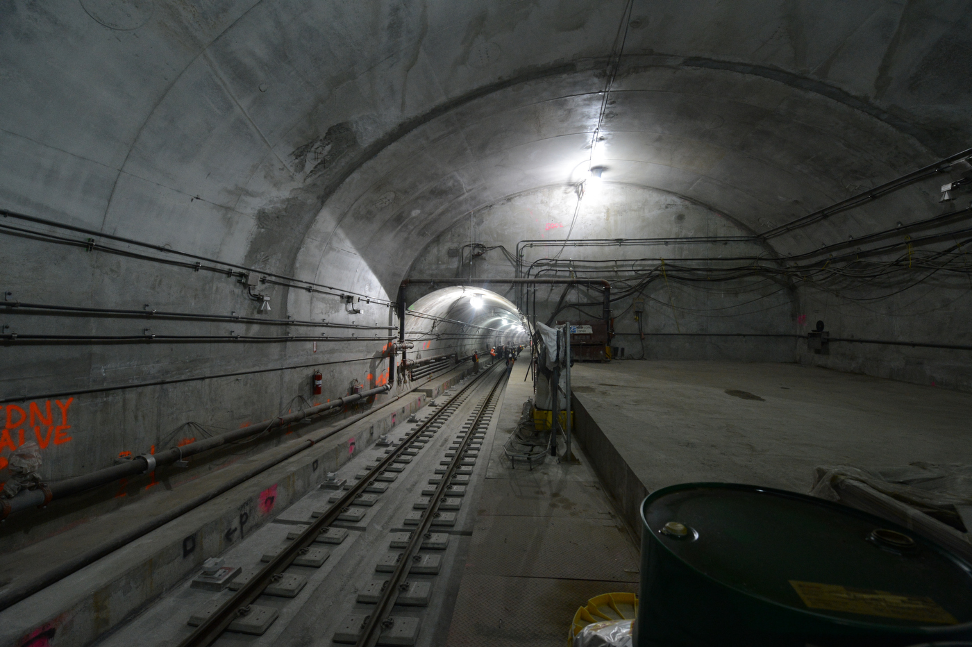 MTA Capital Construction President Dr. Michael Horodniceanu led a media tour of the Second Avenue Subway Phase I project at its 82% completion point, on Thu., May 21, 2015. Photo: Marc A. Hermann / MTA New York City Transit